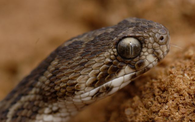 Echis carinatus , Bannerghatta, India